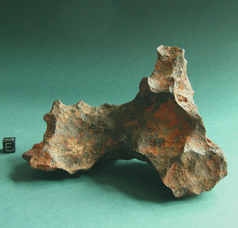 Henbury iron meteorite